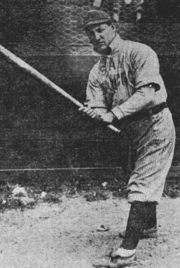 Professional baseball player Ping Bodie